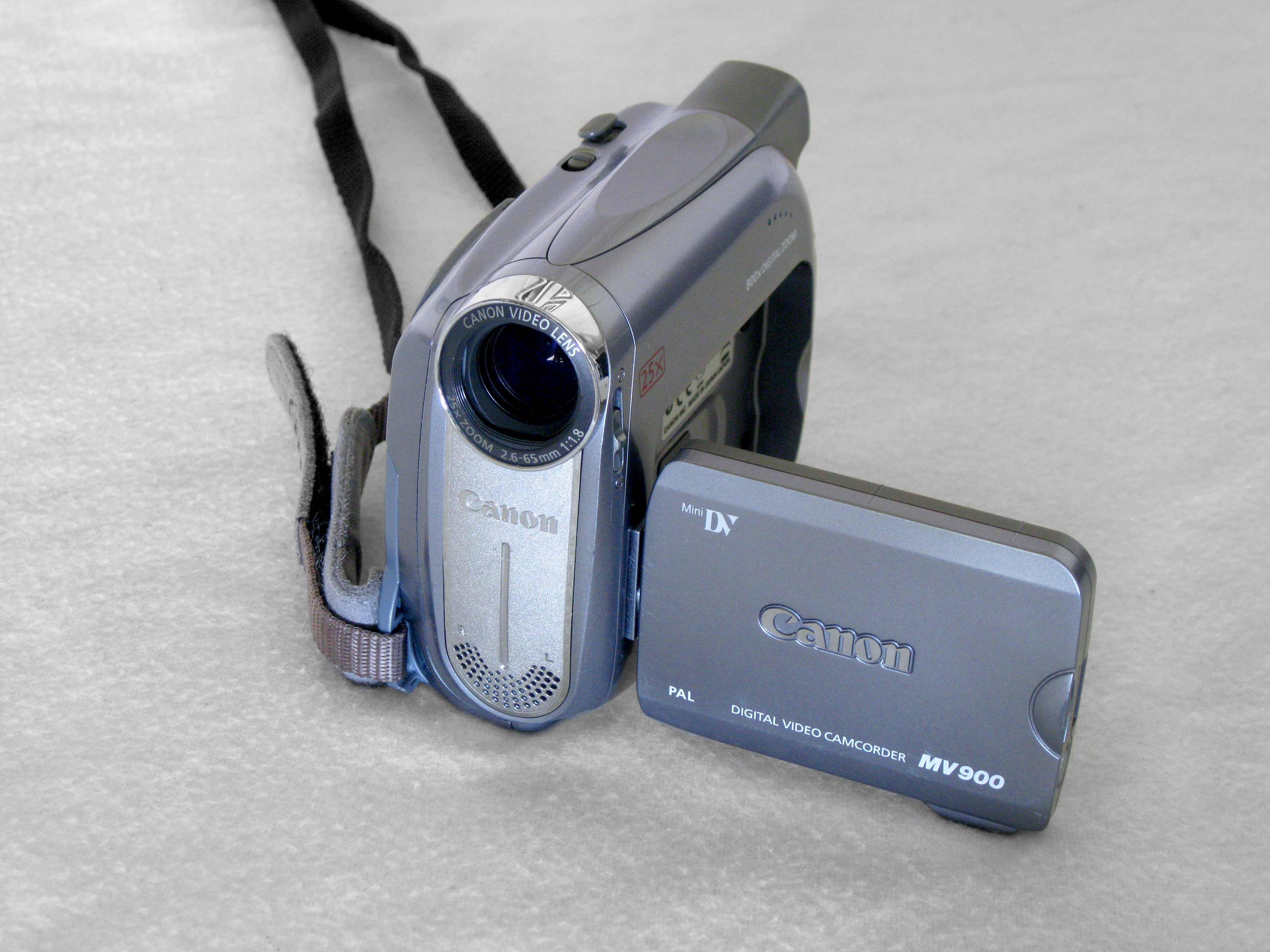 Canon MV900 camcorder.